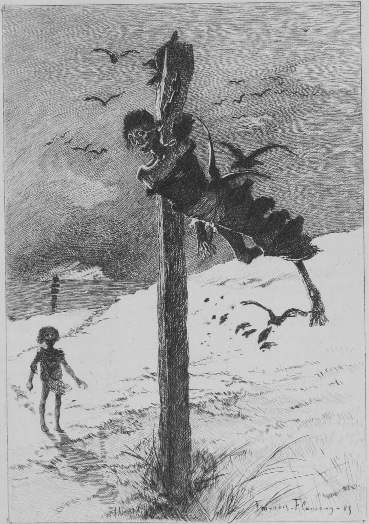 Illustration facing page 71 of Victor Hugo's novel The Man Who Laughs, International Limited Edition, published by Estes and Lauriat in 1869. Etched by H. Lefort.—From Drawing by François Flameng. Caption: The Child at the Gallows.